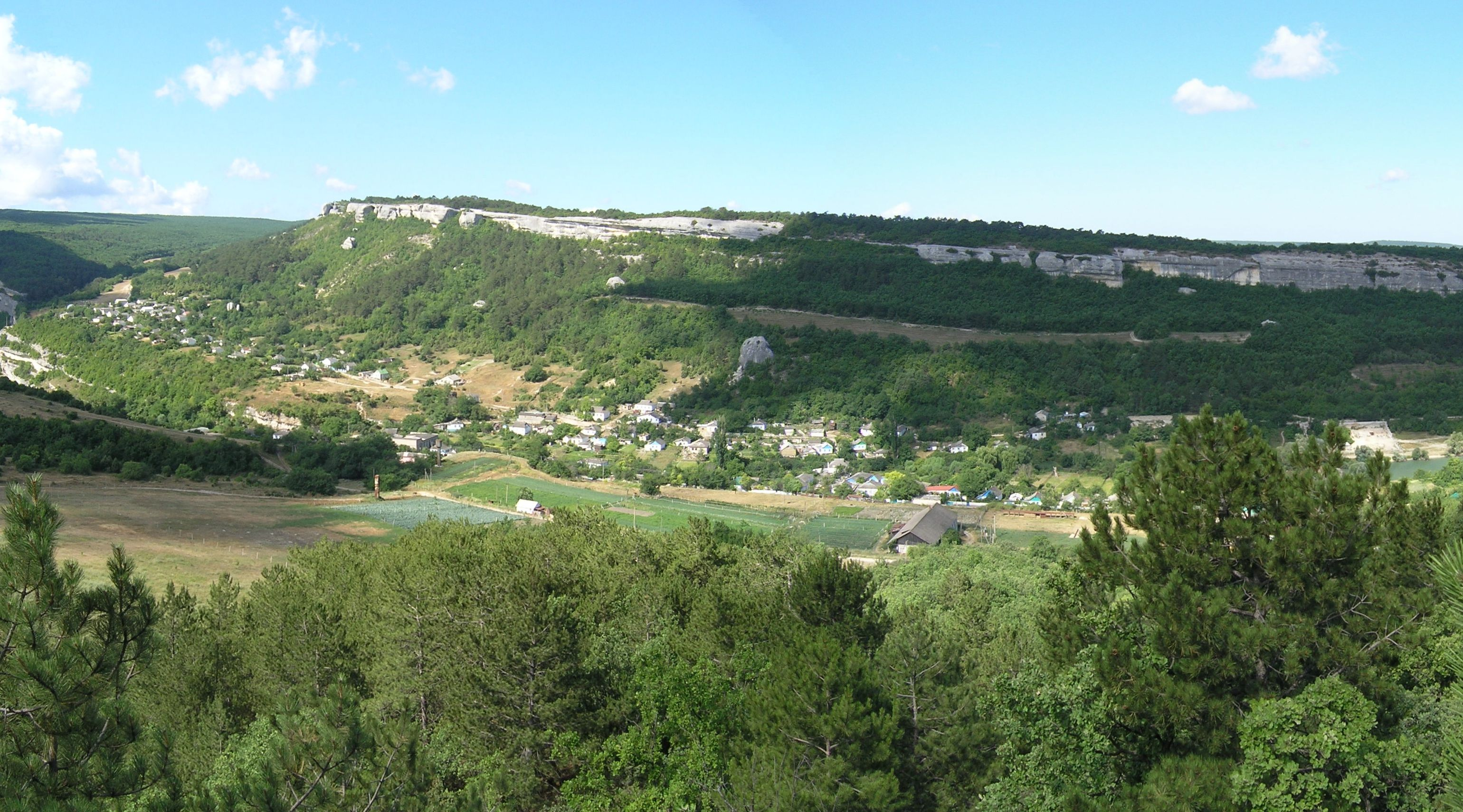 Zalesnoe village, Bakhchisaray district, Crimea.